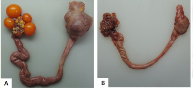 Gross lesions change of the experimentally infected chickens. Reproductive system of ovary and oviduct of chicken inoculated with PBS control (A), D11-JW-012 (B), D11-JW-017 (C), D11-JW-032 (D), or 127 virus (E). Ruptured ovarian follicles and peritonitis were also found in chickens infected with 127 virus (F).